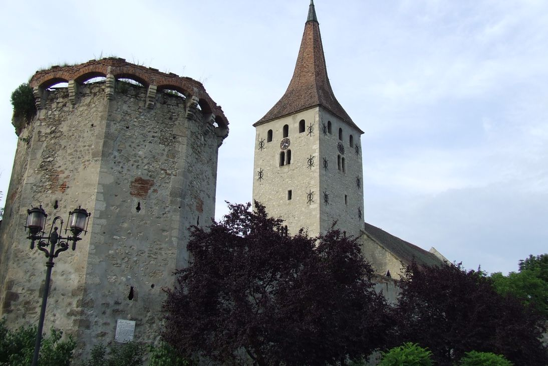 Aiud Citadel, Romania 04 02